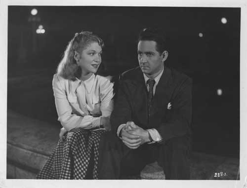 Photograph taken on the set of the Argentine movie Diez Segundos (1949), Ricardo Duggan and Patricia Castell